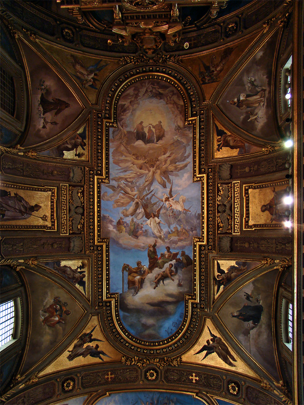 Frescoed church ceiling — Pontifical Shrine of the Blessed Virgin of the Rosary of Pompei, Campania, Italy.